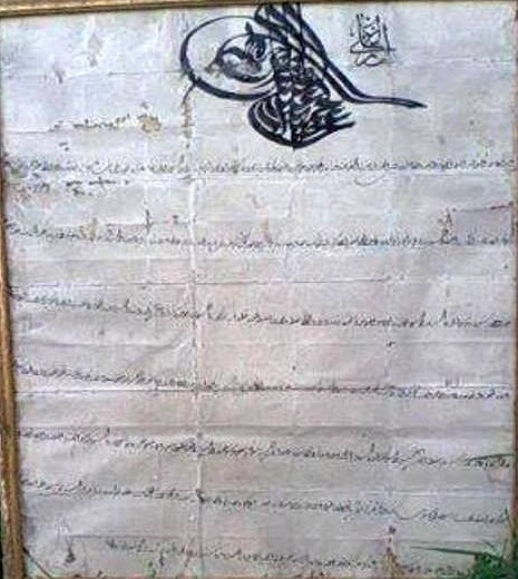 Abdül Hamid II Firman for Daint Demetrius Church in Tsarevik